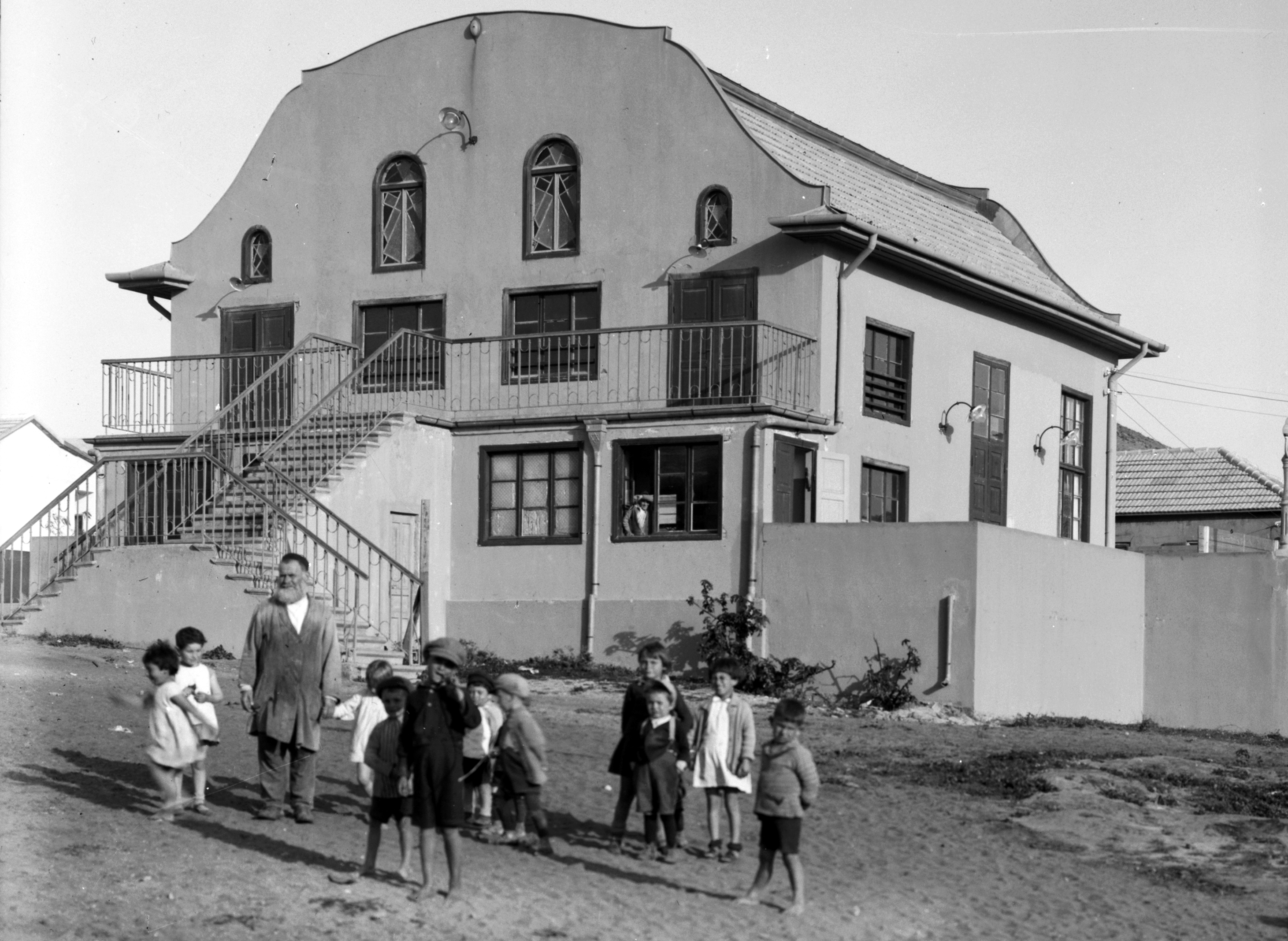 Zionist colonies on Sharon. Bnai Brak. The synagogue.